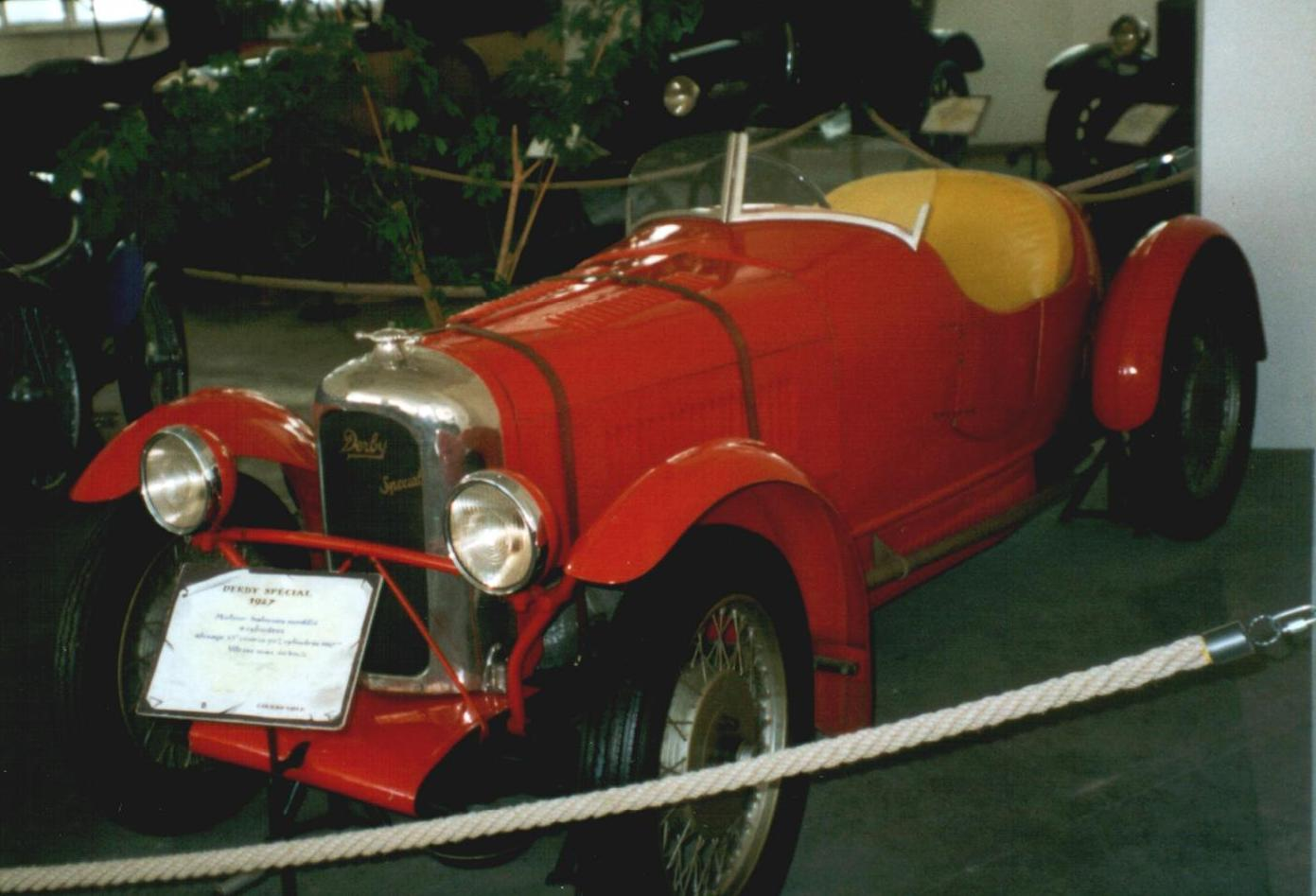 Derby 1927 (Country of origin: France)